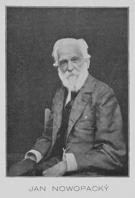 Portrait of Jan Nowopacký (1821-1908), Czech painter.